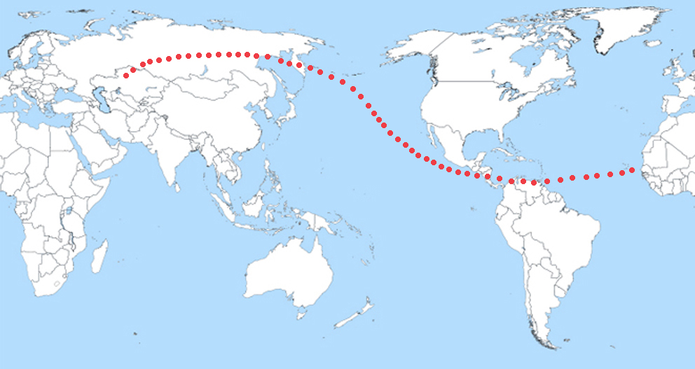 Approximate path of risk for 99942 Apophis in 2036